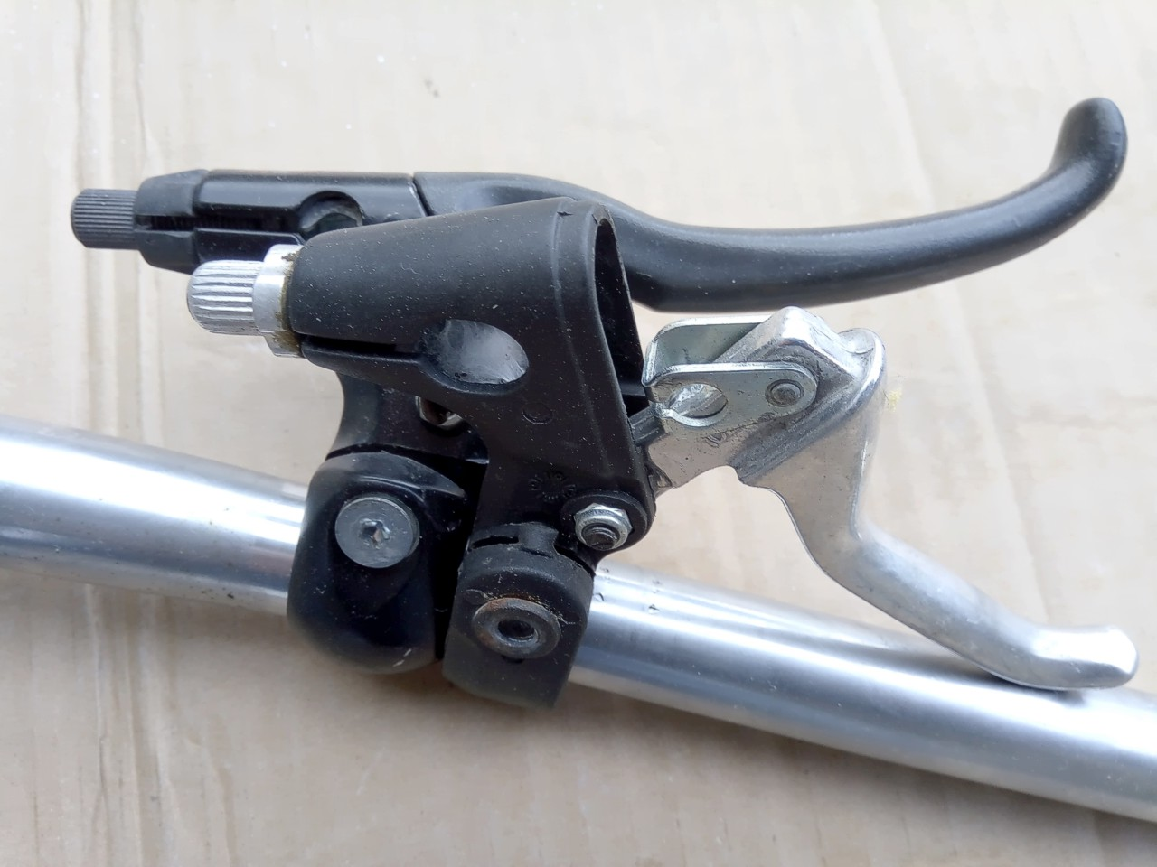 Brake levers with different lengths, long plastic lever, with steel cable clutch, return spring, grain position adjustment, while aluminum short lever with aluminum cable clamp, no return spring and with screw position adjustment tapping.